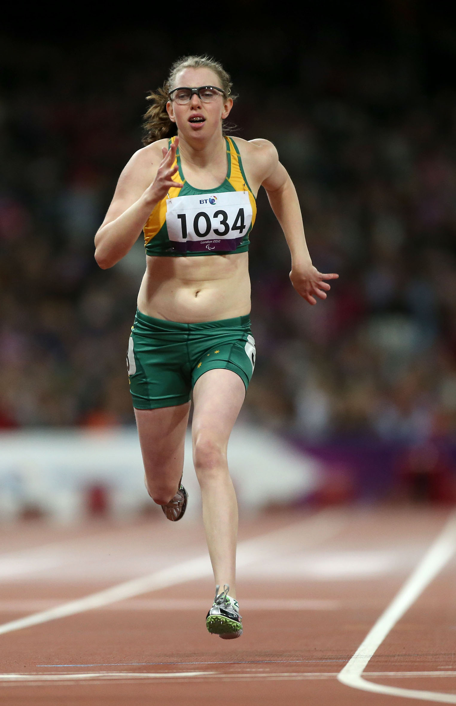 Photograph of Australian Paralympic team member Erinn Walters at the 2012 Summer Paralympics in London